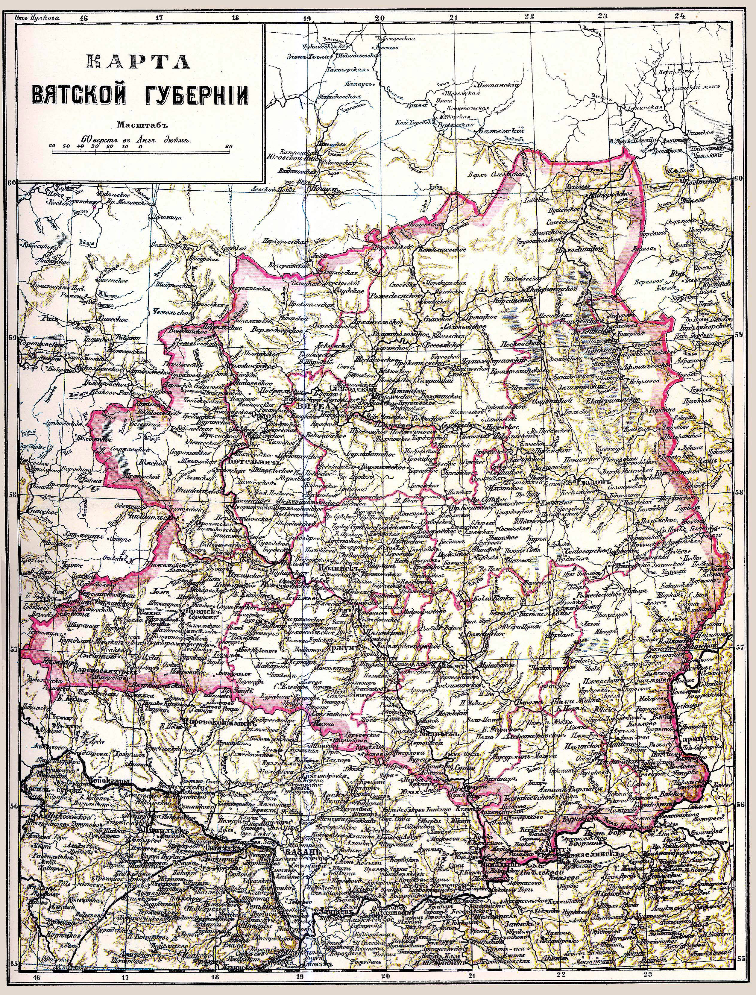 Illustration from Brockhaus and Efron Encyclopedic Dictionary (1890—1907)